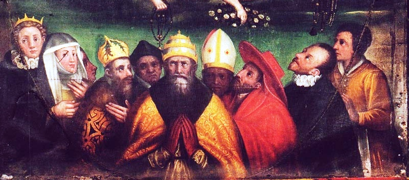 Ambrogio Oliva, Madonna del Rosario, in the church of the SS. Nome di Gesù e del Rosario (Madonna del Rosario), Occimiano, Province of Alessandria, Italy. Detail of the foot of the painting with portraits of notable figures from Monferrato to the left (Margherita Paleologo, Anna d’Alençon, unidentified female profile, Carlo V, Stefano Guazzo) and from Mantova to the right (Ambrogio Aldegatto, Ercole Gonzaga, Guglielmo Gonzaga, Isabella Gonzaga). Pius V centre bottom foreground.